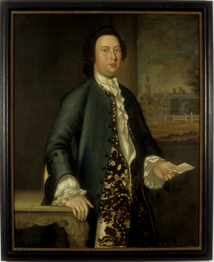 Portrait of an unknown man. Historic New England, Boston, Massachusets, USA